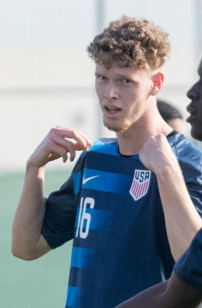 USA U20 v France U20, 22 March 2019